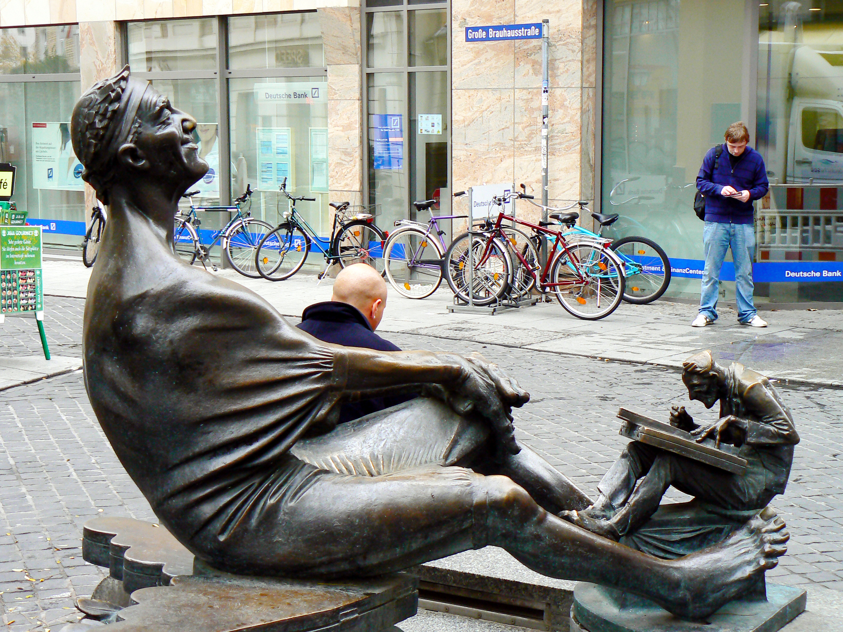 Sculpture "Zither-Reinhold" in Halle (Saale)/Germany